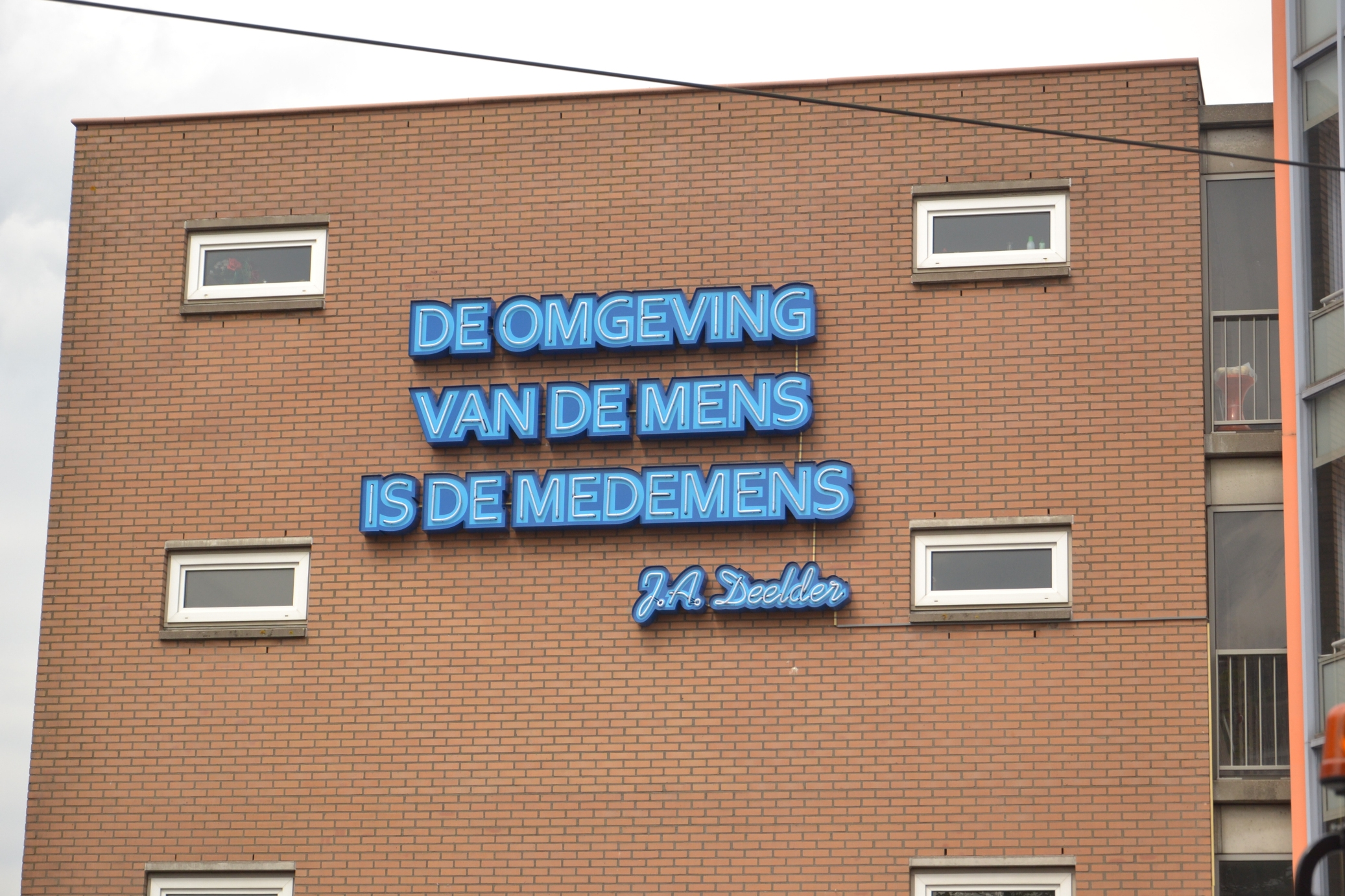 Text of Jules Deelder on the Nieuwe Binnenweg, Rotterdam, the Netherlands.